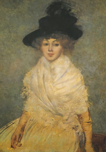 An oil painting by Jean-Louis Forain depicting his wife, the painter Jeanne Forain (nee Jeanne Bosc), wearing a black hat